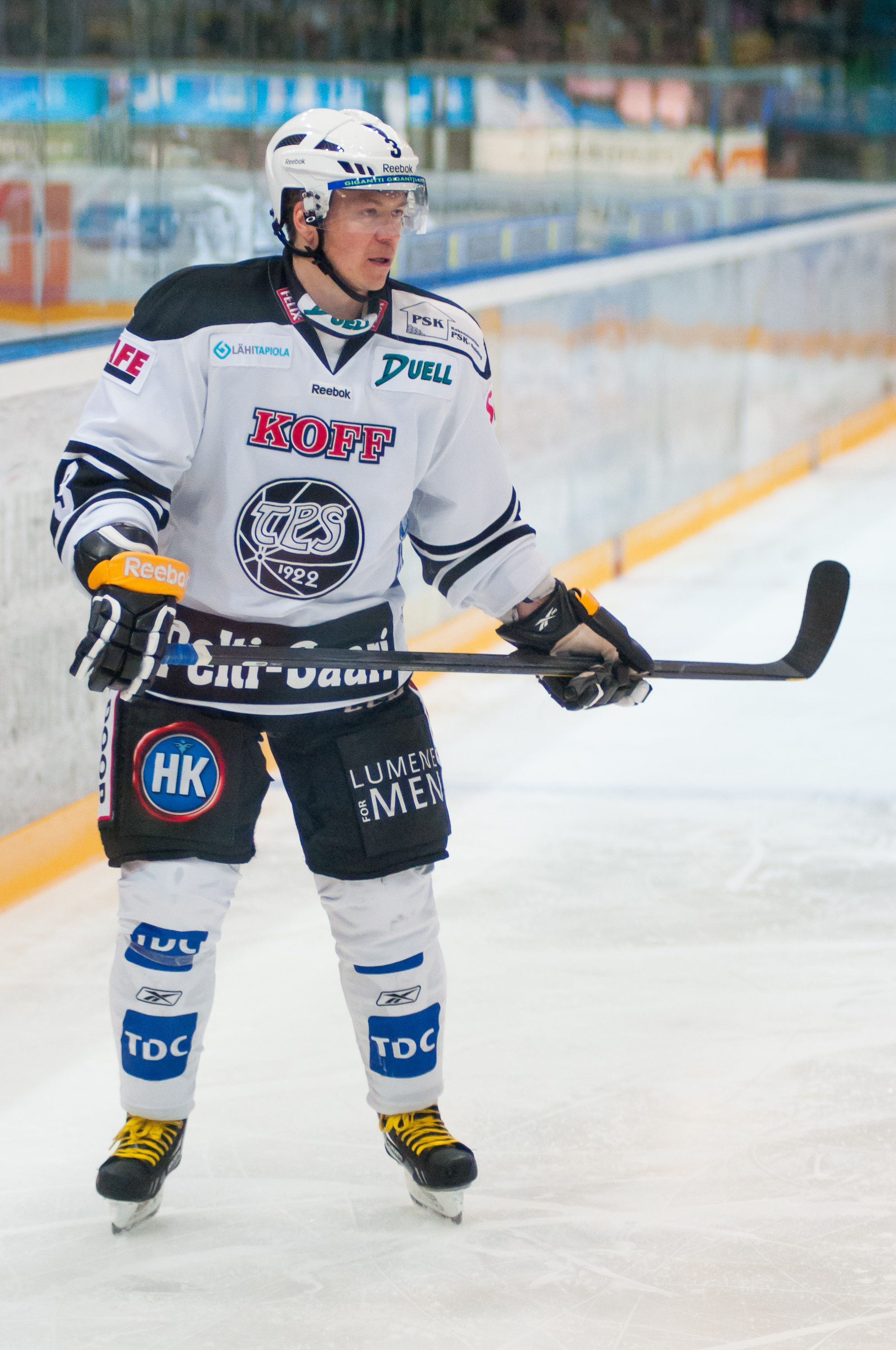 Finnish ice hockey defenseman Petteri Nummelin playing for Turun Palloseura against SaiPa Lappeenranta in Lappeenranta, Finland.